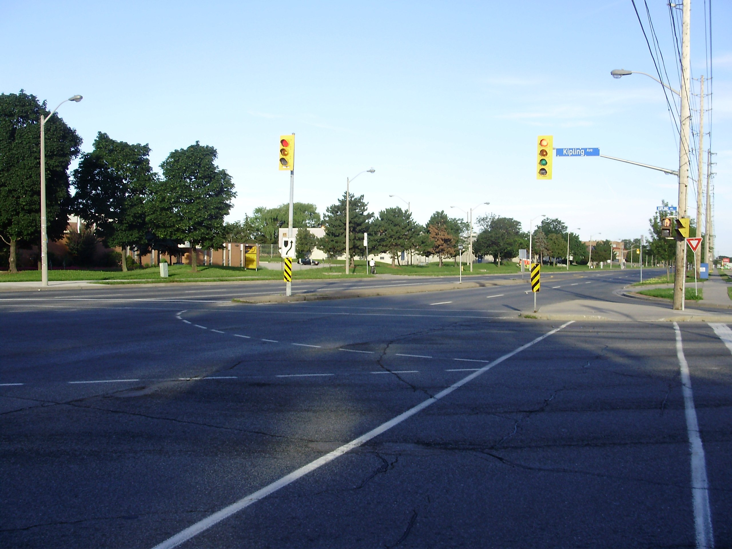 The intersection of Albion Road and Kipling Avenue in Toronto, Ontario, Canada. Albion is one of the few major roads in the city of Toronto which breaks the prevailing north-south and east-west grid pattern.